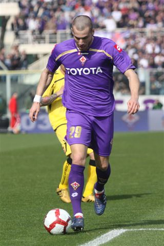 Italian football player Lorenzo De Silvestri (Fiorentina F.C.)